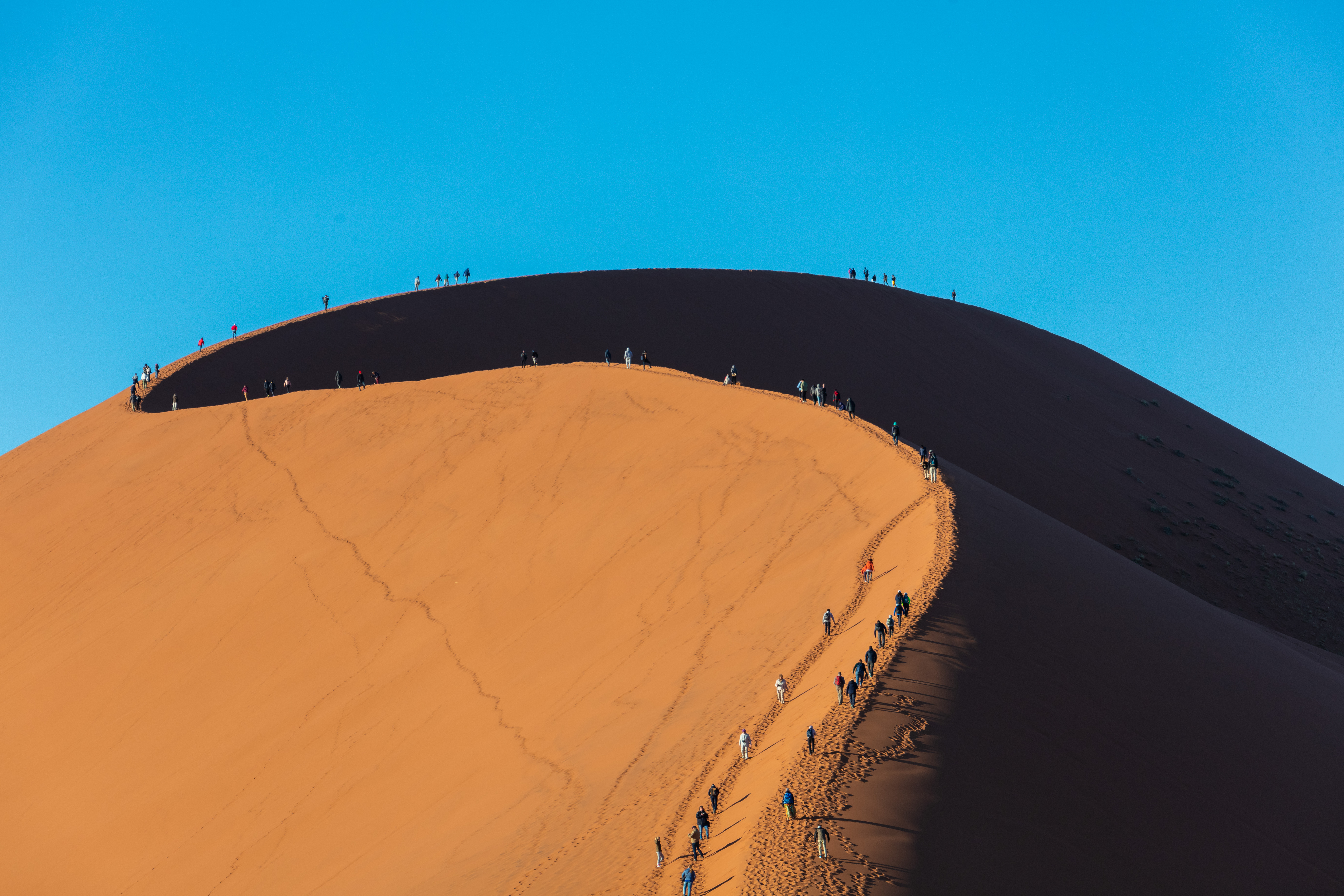 Dune 45, Sossusvlei, Namibia